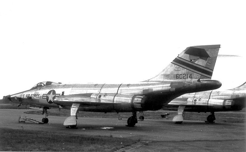 38th Tactical Reconnaissance Squadron - McDonnell RF-101C-55-MC Voodoo - 56-214